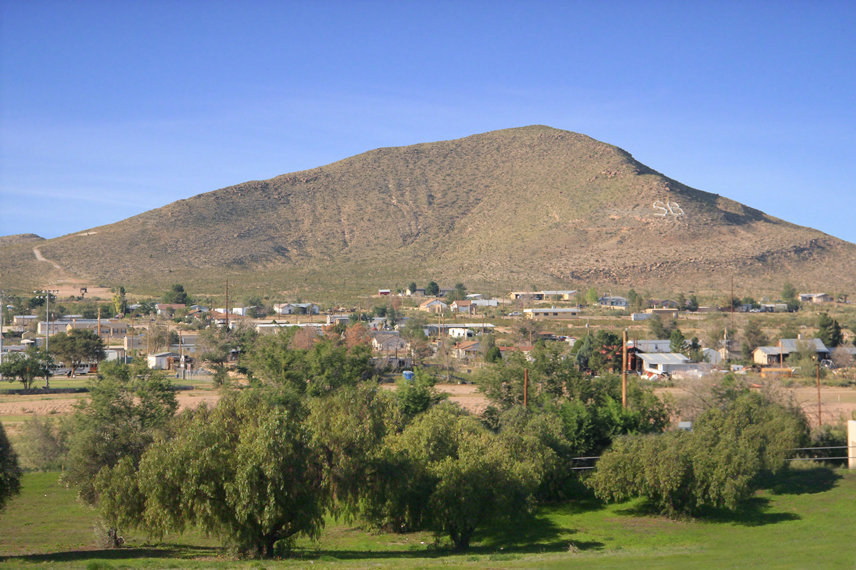 View of Sierra Blanca, Texas from the city limits.